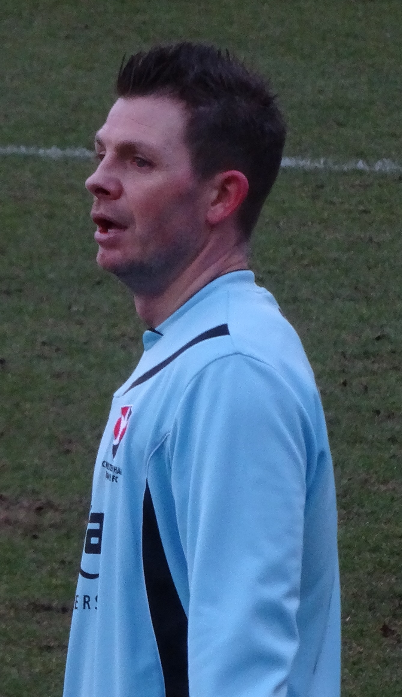 Jamie Cureton.